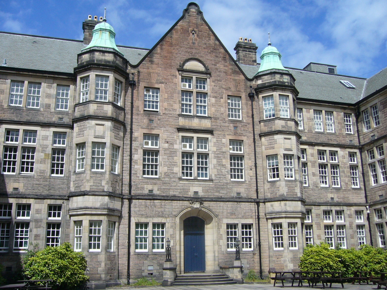 The quadrangle of the main teacher training college in Edinburgh, established in 1846 as the United Free Church Training College. It is now surrounded by a cluster of 20th-century college buildings.